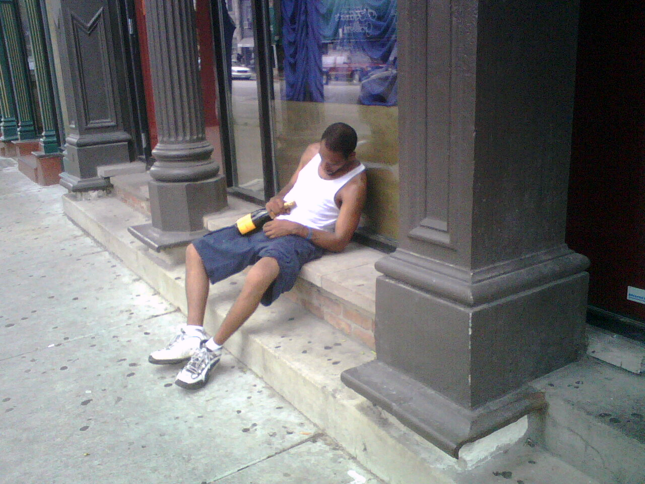 All along Wells St. in River North, wifebeater-clad drunks pass out on stoops in the early afternoon heat, grasping bottles of Champagne. (Downtown Chicago, USA)